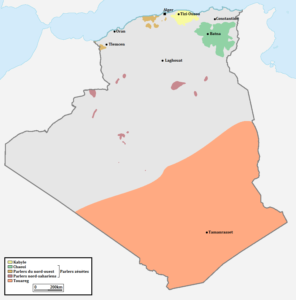 Localization of Berber-speaking areas in Algeria ; map based on: File:Gourara ksour - Linguistic map.PNG , source: J. Bisson, "Gourara", in Encyclopedie Berbere ; File:South Oranie and Figuig Berber.PNG, source: A. Basset, "La langue berbère dans les territoires du sud", in: Revue Africaine vol. 85 (1941) & UNESCO's Atlas of Endangered Languages (2009) File:Mzab-Wargla Berberophone areas.PNG, source: R. Basset, "Étude sur la zénatia du Mzab, de Ouargla et de l'Oued-Rir'" (1893) & W.-J. Frawley, "International Encyclopedia of Linguistics, vol. 3" (2003) File:Map of Northern Saharan Berber dialects.PNG, source: M. Kossmann, "The Arabic Influence on Northern Berber" (2013) ; File:Berbères en Algérie occidentale.svg, source: S. Chaker, "Tamazight - Lngue berbere : Quelques données de base" (CRB), modified per J. Cantineau, "Les parlers arabes du departement d'Oran", in: Revue Africaine vol. 84 (1940) File:Aires linguistiques du nord-est algérien.svg, source: S. Chaker, "Textes en Linguistique Berbère" (1984) & P. Bourdieu, "Sociologie de l'Algérie" (1980) File:Tuareg area.png (multiple sources) Own made map